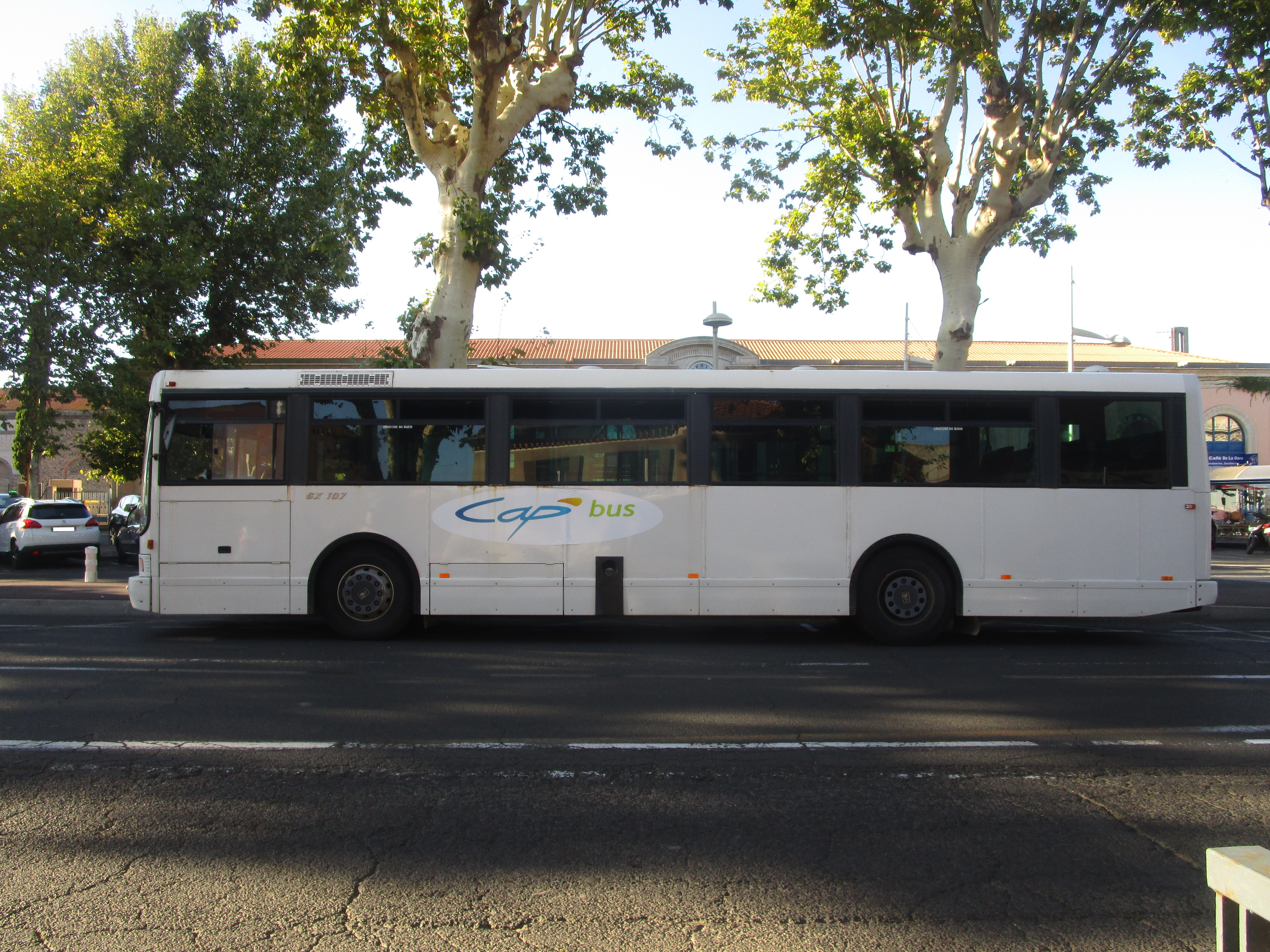 An Heuliez GX 107 (n°199 of CarPostal Agde) running on Cap’Bus line 2 — Mairie du Grau, Grau d’Agde↔Gare, Agde — at the call Gare (Agde, France) on August 21, 2017.